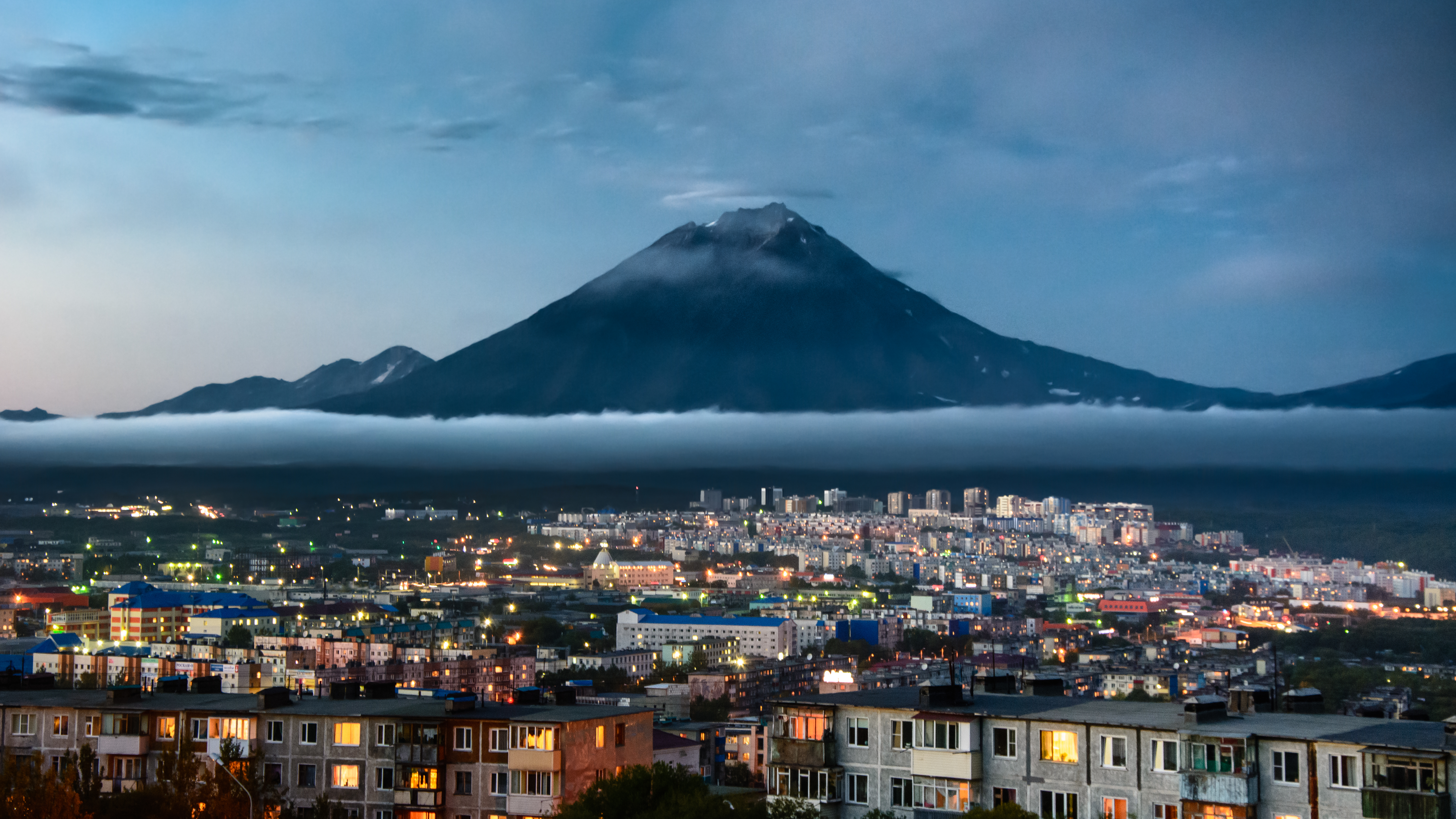 This pictures shows some illuminated buildings of Petropavlovsk-Kamchatsky in front of volcano Koryaksky.